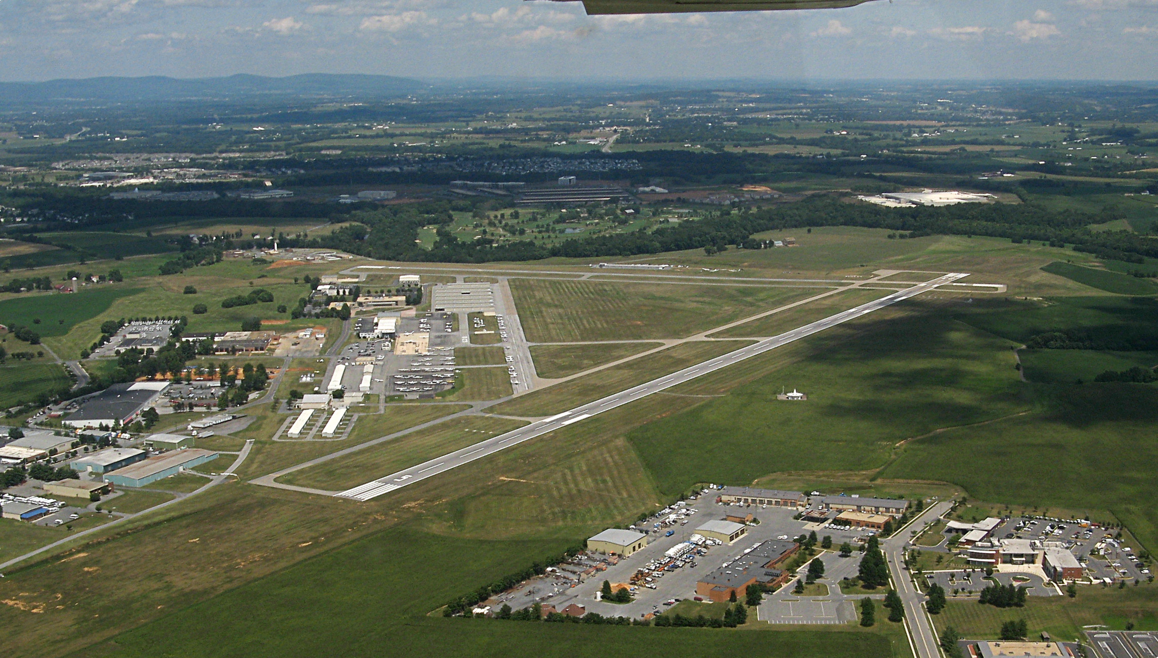 Frederick Municipal Airport (KFDK) in Frederick prior to the new control tower construction; as seen from the traffic pattern altitude of 1,300 MSL (1,000 AGL) in a Cessna 172. Runway 5/23 runs from the bottom center to the top right of the image; the other runway is 12/30. On this day, 30 was favored by winds; normally 23 is preferred. The VOR is also visible as the white object below and near the center of runway 5/23. A bit beyond the mountains in the distance is Prohibited Area 40 (P-40), or the special use airspace surrounding Camp David.